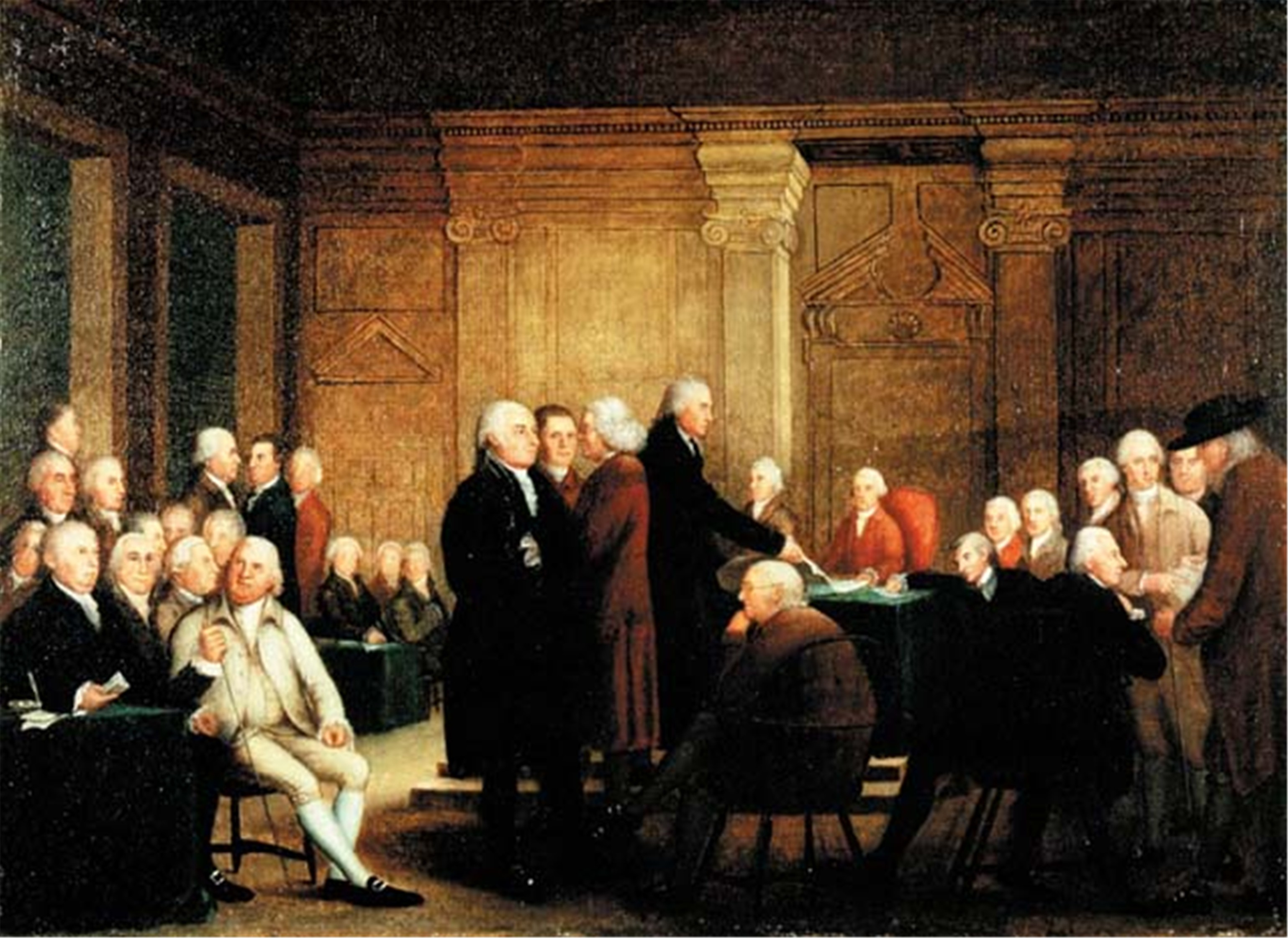 A depiction of the Second Continental Congress voting on the United States Declaration of Independence